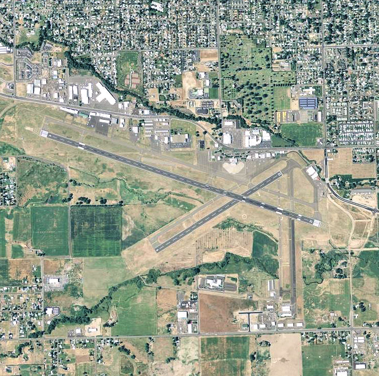 USGS digital orthophoto of Yakima Air Terminal in the U.S state of Washington